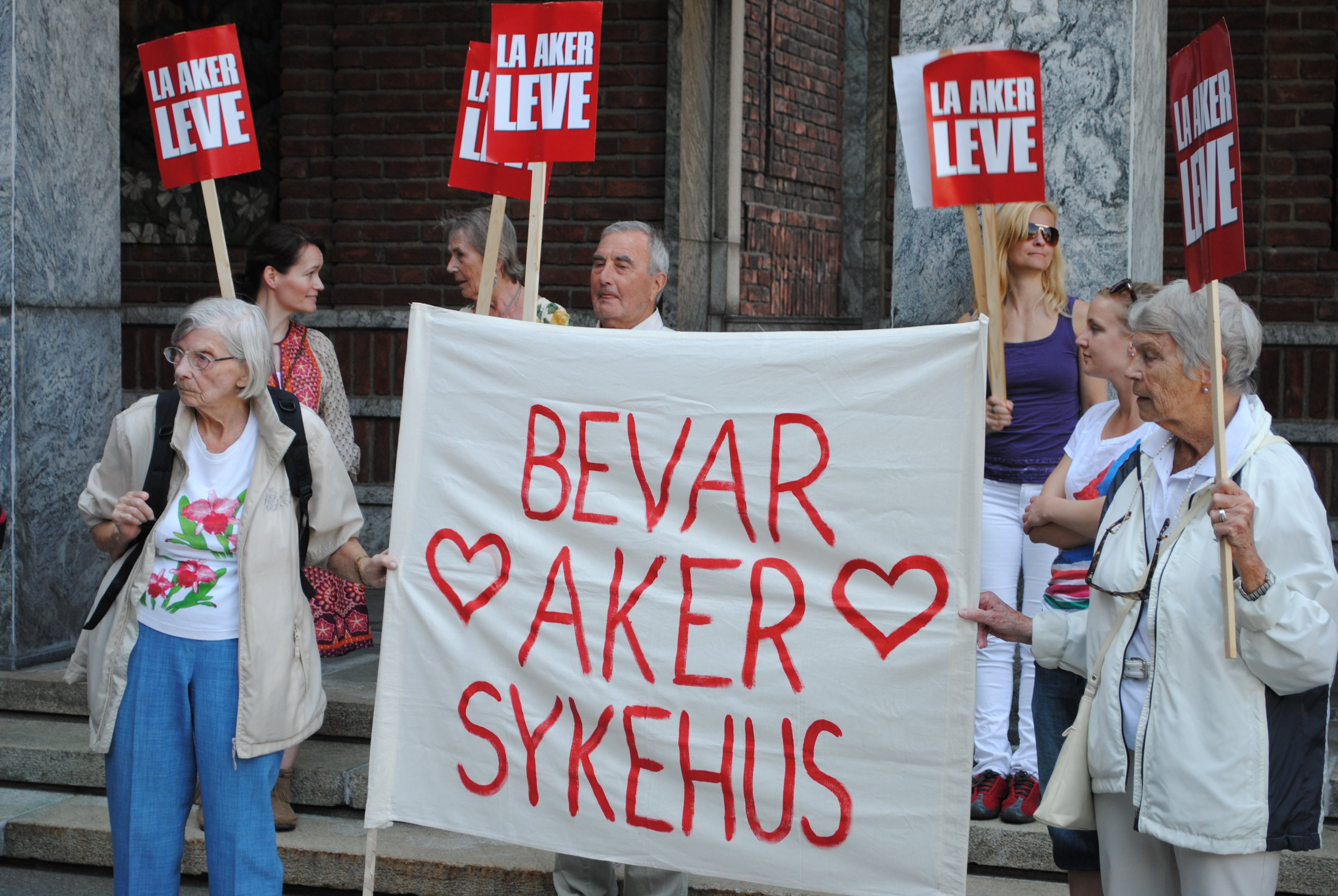 Citizens protesting the closure of Aker Sykehus in front of Oslo City Hall in 2012.